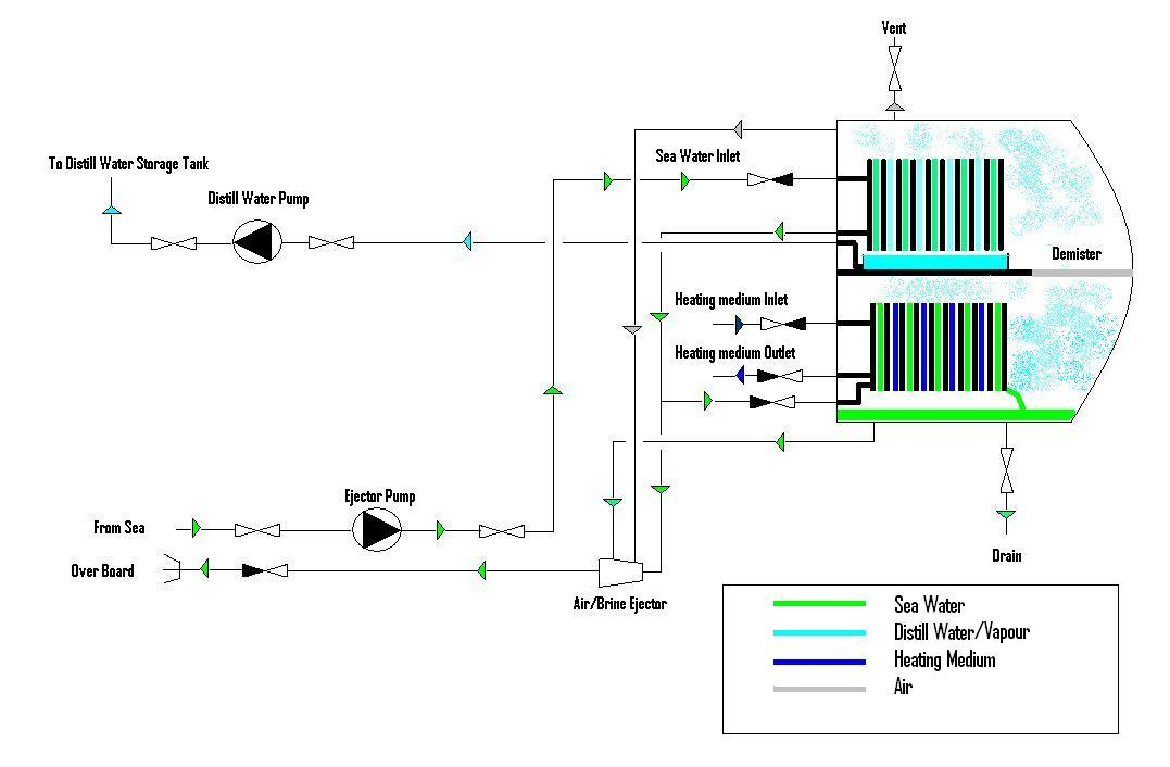 Plate Type Fresh Water Generator Flow Diagram